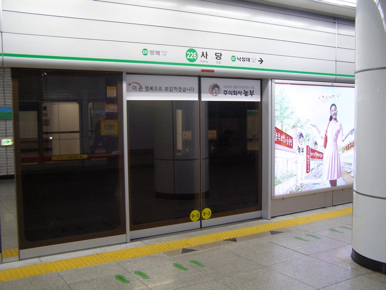 Sadang Station